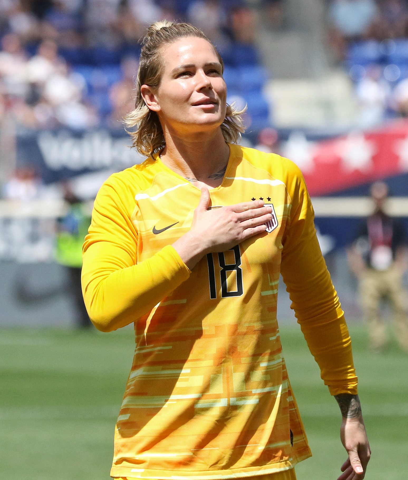 Ashlyn Harris after the USWNT friendly against Mexico on May 26, 2019.